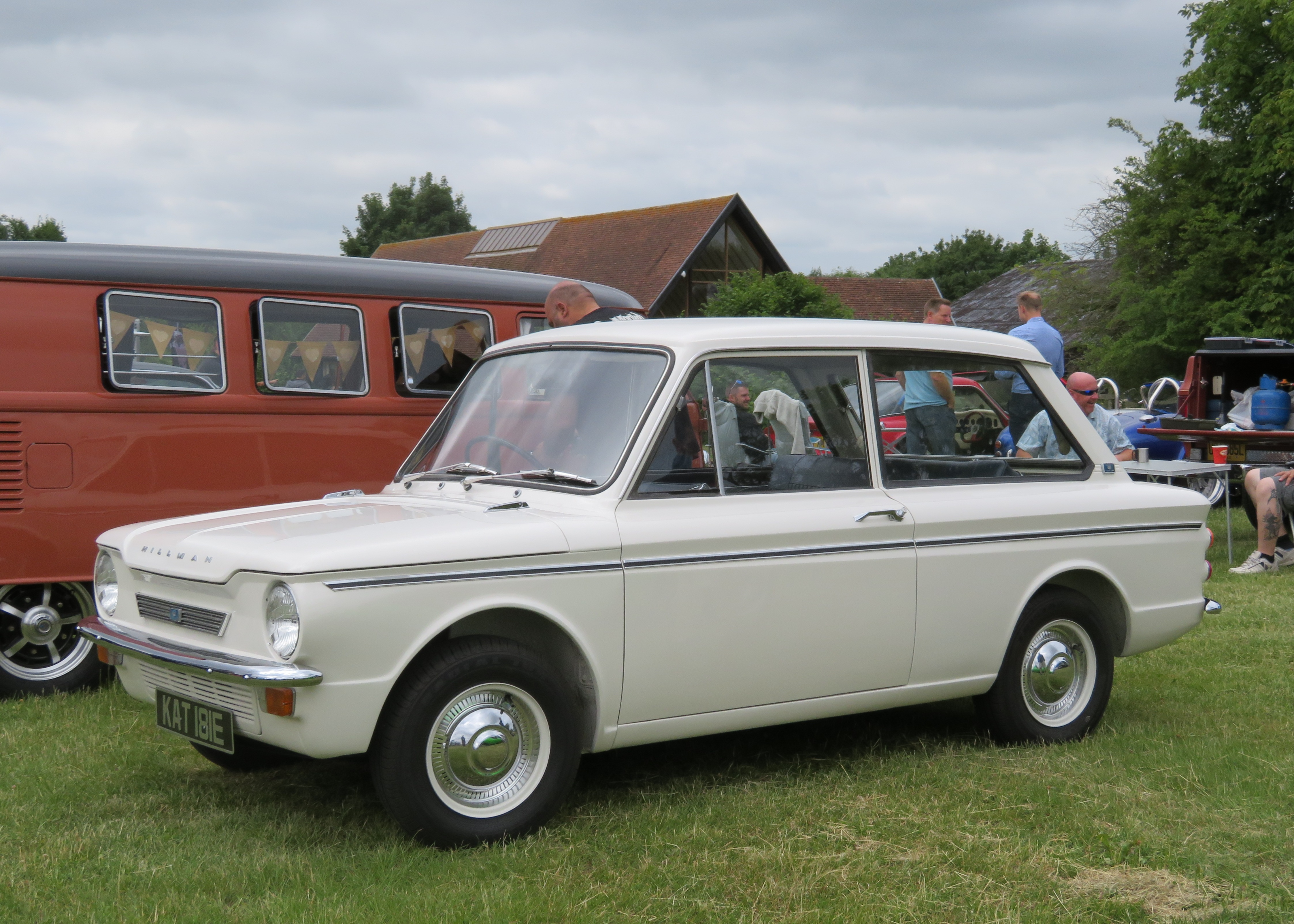 Hillman Imp (1967)